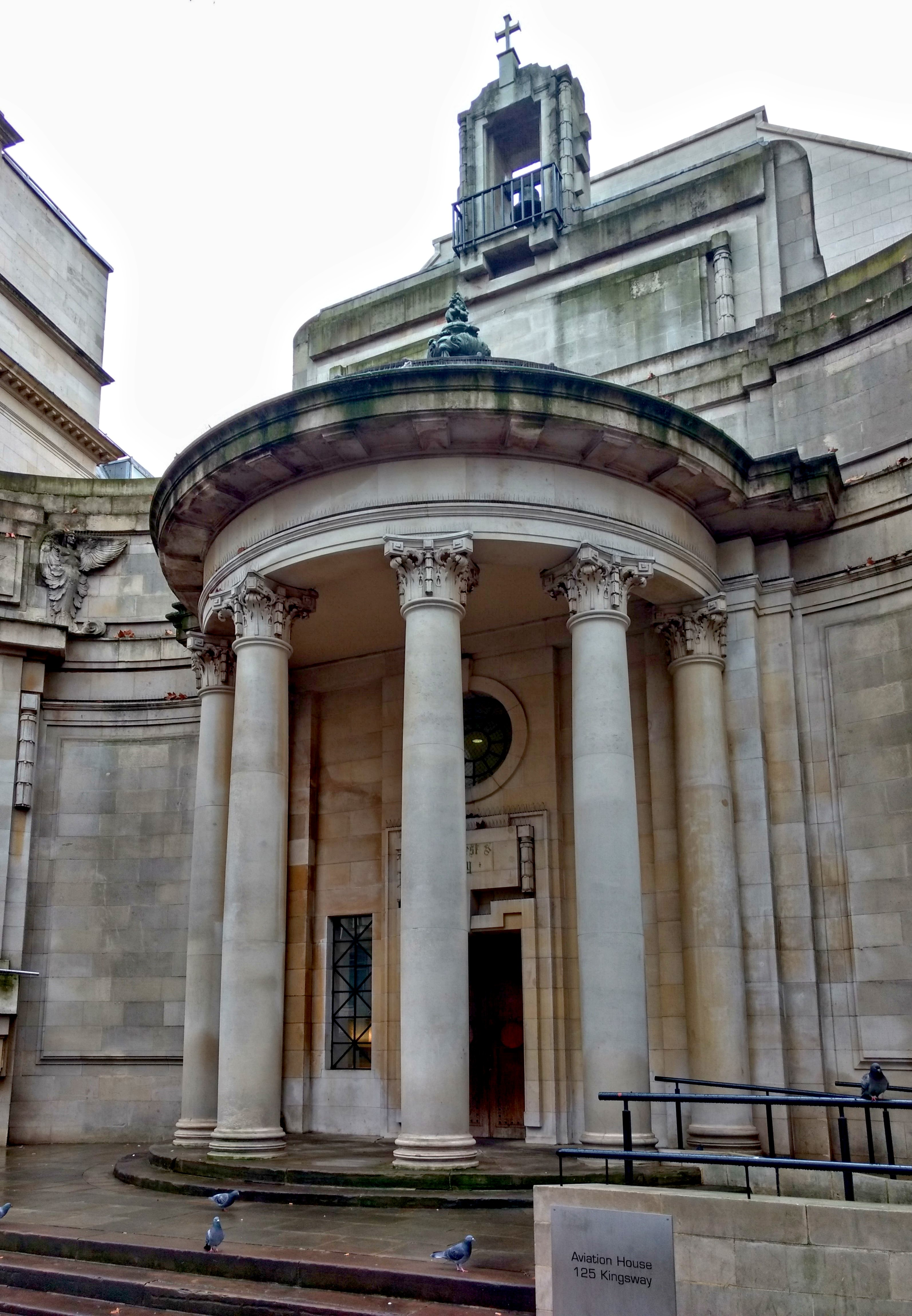 Portico of Aviation House, Kingsway, London WC2, seen from the northeast. The building was completed in 1911 as Holy Trinity parish church.